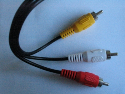 RCA plugs.